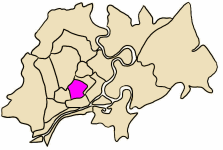 position of district 10 in an outline of the core area of HCMC (Ho Chi Minh City, Vietnam) - ISO code VN-F-HC. Keywords: map, outline, city, Ho Chi Minh City, HCMC, HCM, district 10, quan 10.